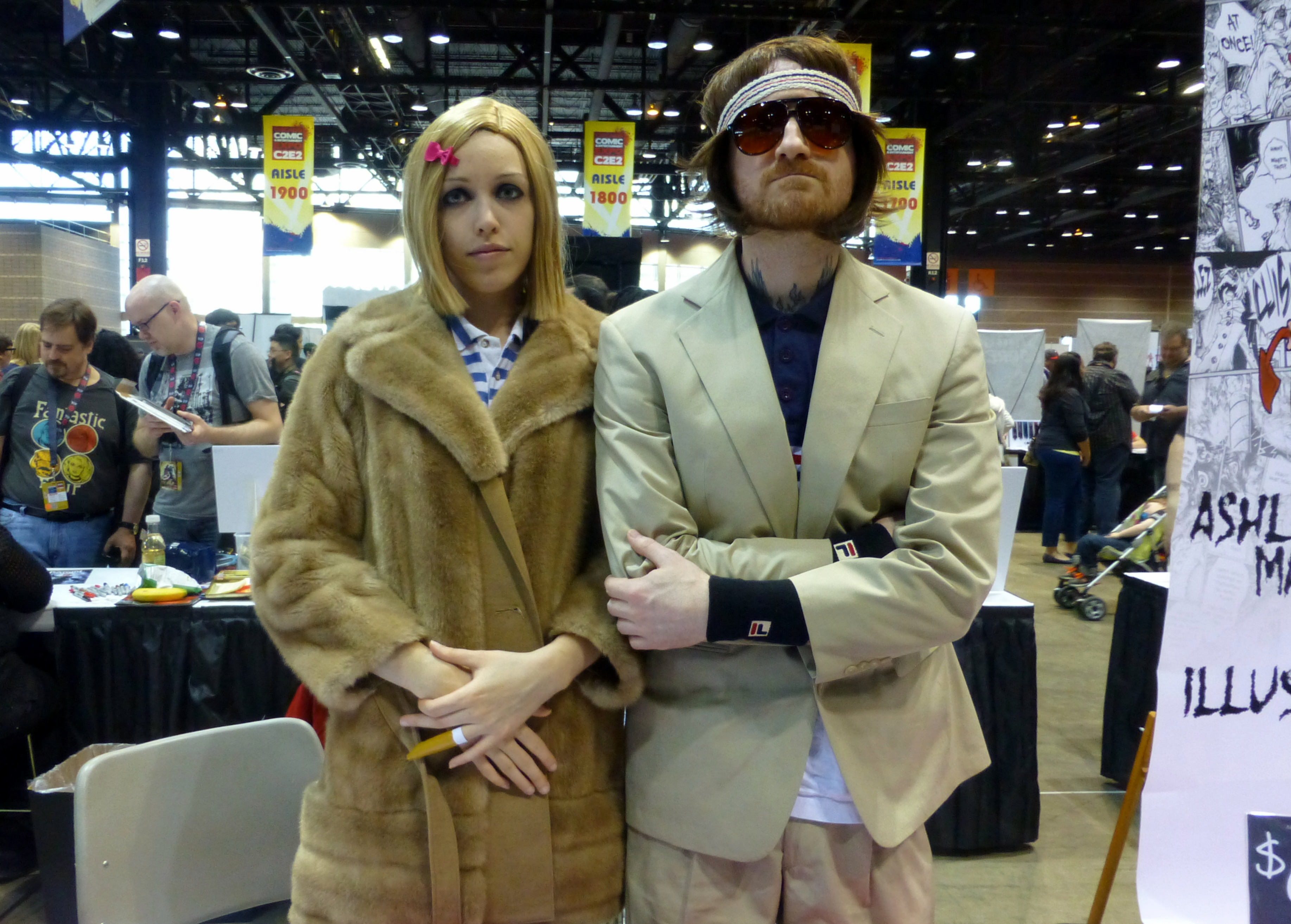 Royal Tenenbaums, Margo and Richie Cosplay at Chicago Comic & Entertainment Expo (C2E2) 2014.